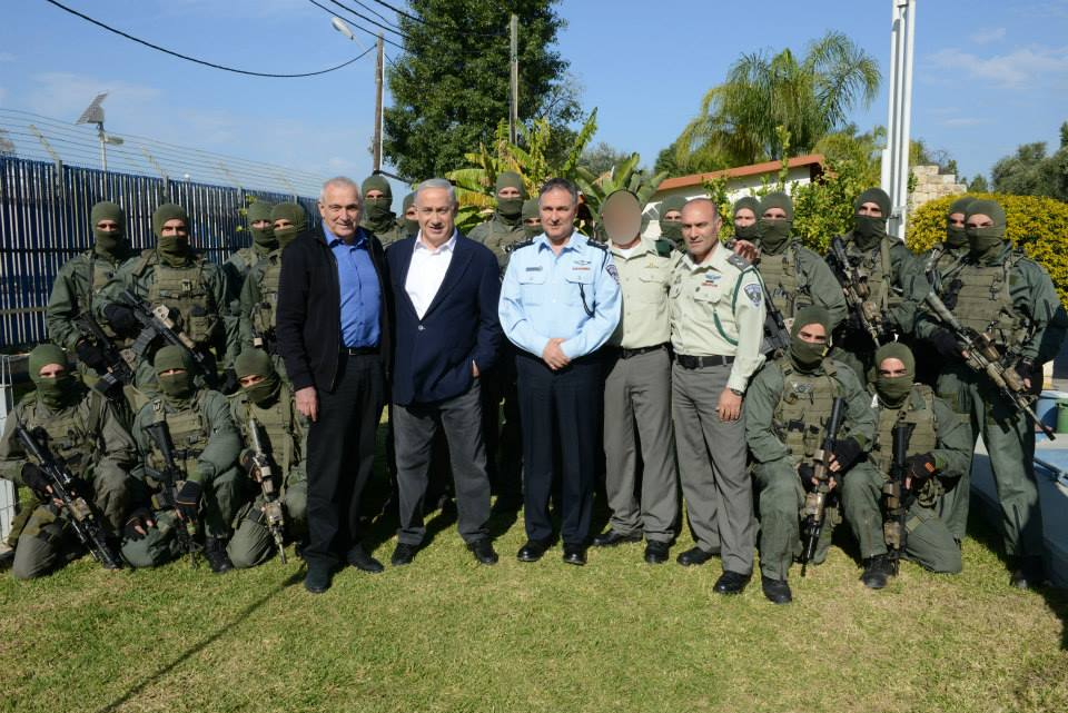 YAMAM - Israeli elite counter-terrorism unit